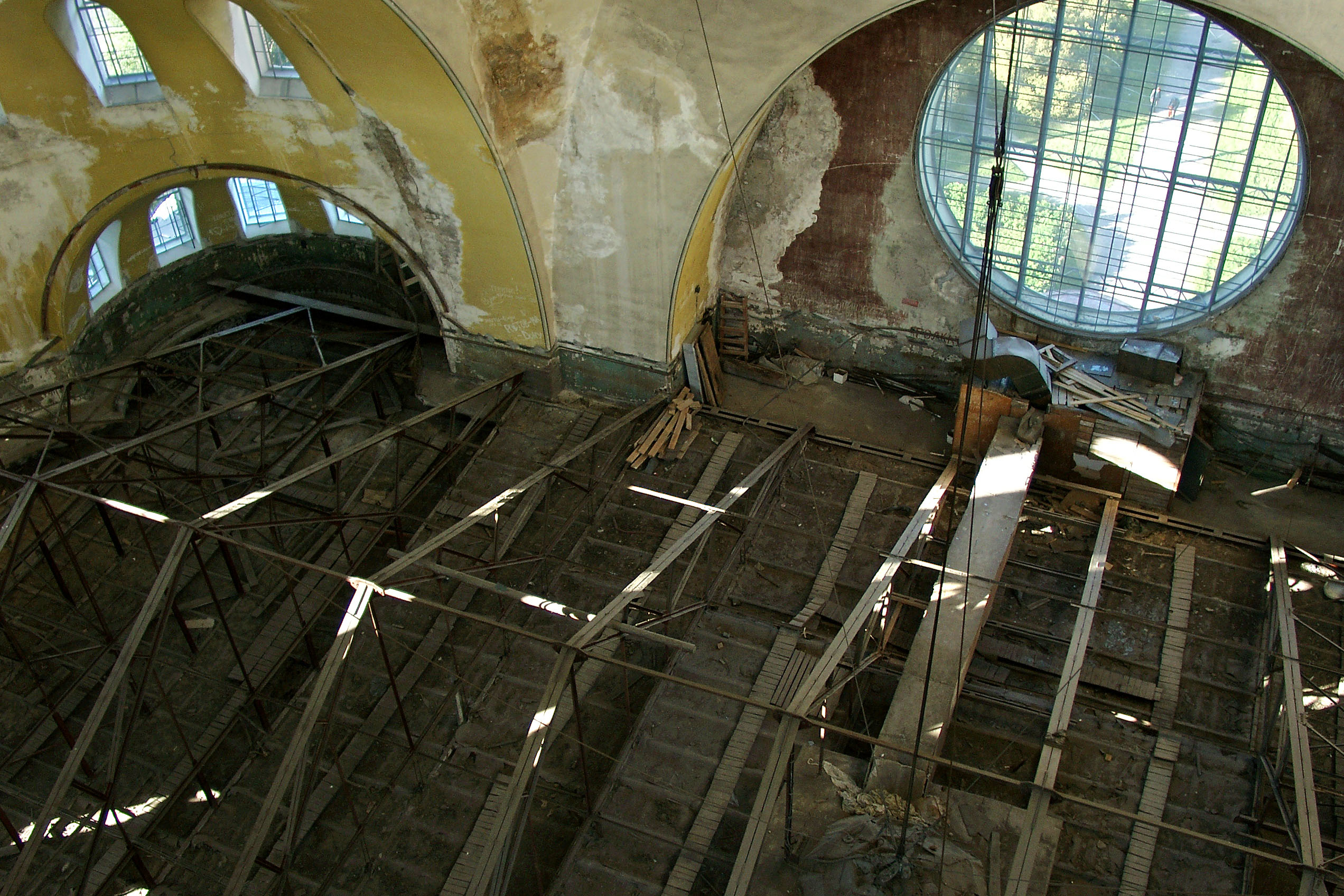 Kronstadt Naval Cathedral interiors before renovation, 2004.